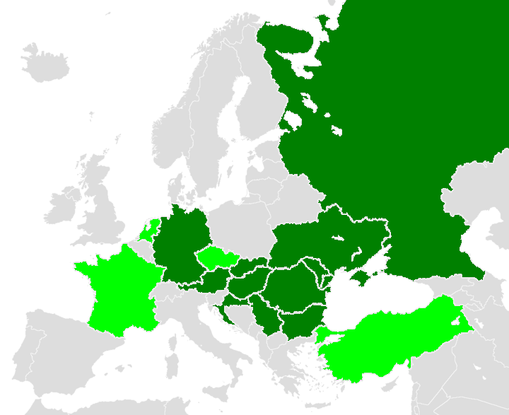 Map of the member states (dark green) and observative members (light green) of the Danube Commission.